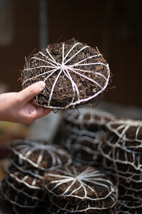 Dried Eastern brakenfern